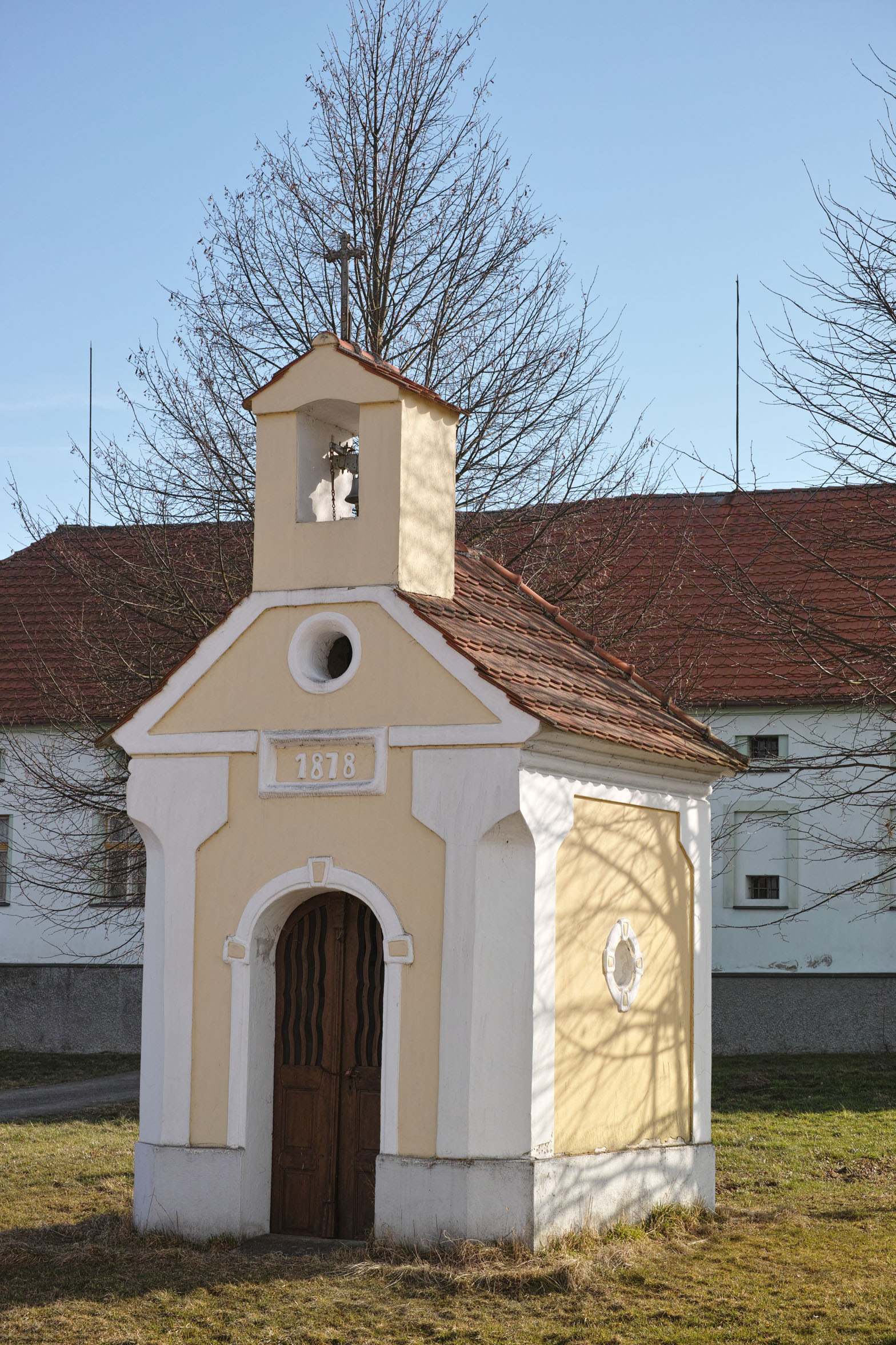 kaple v osadě Hláska u Podeřiště, 1878